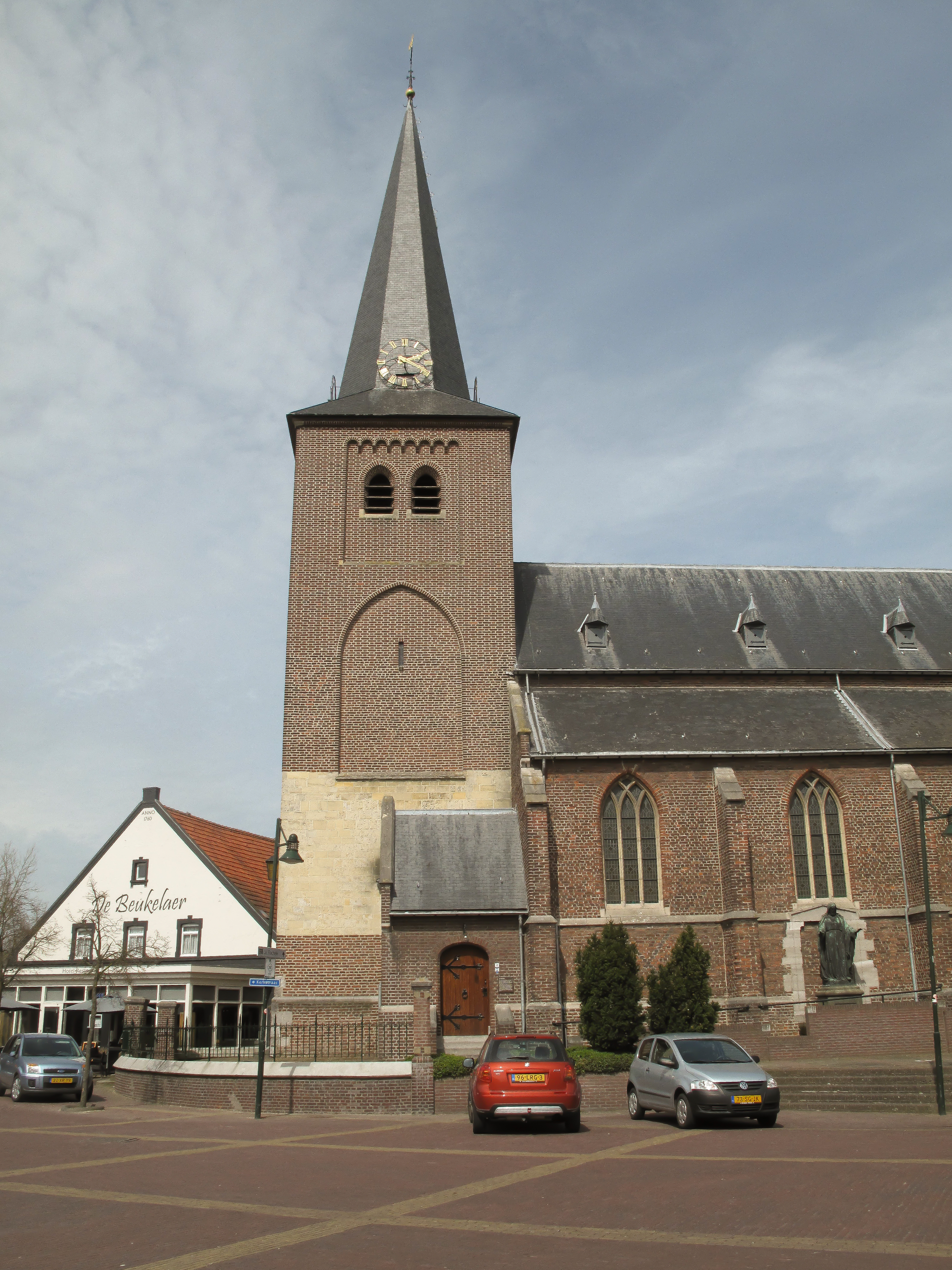 Roggel, church: de Sint Petruskerk